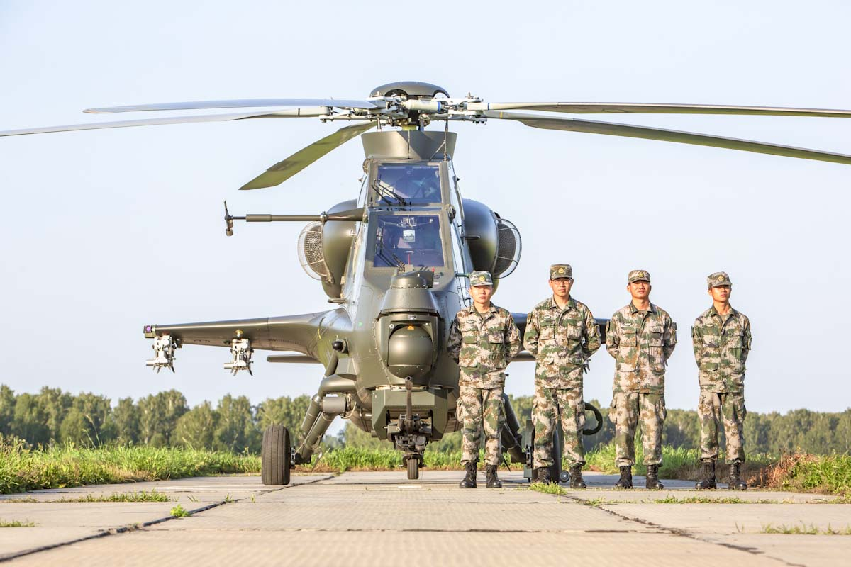 Peaceful Mission 2018. Changhe Z-10